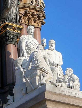 Manufactures group (Albert Memorial) by Henry Weekes (1807–1877) Description English sculptor Date of birth/death14 January 18071877Location of birth/deathCanterburyEngland